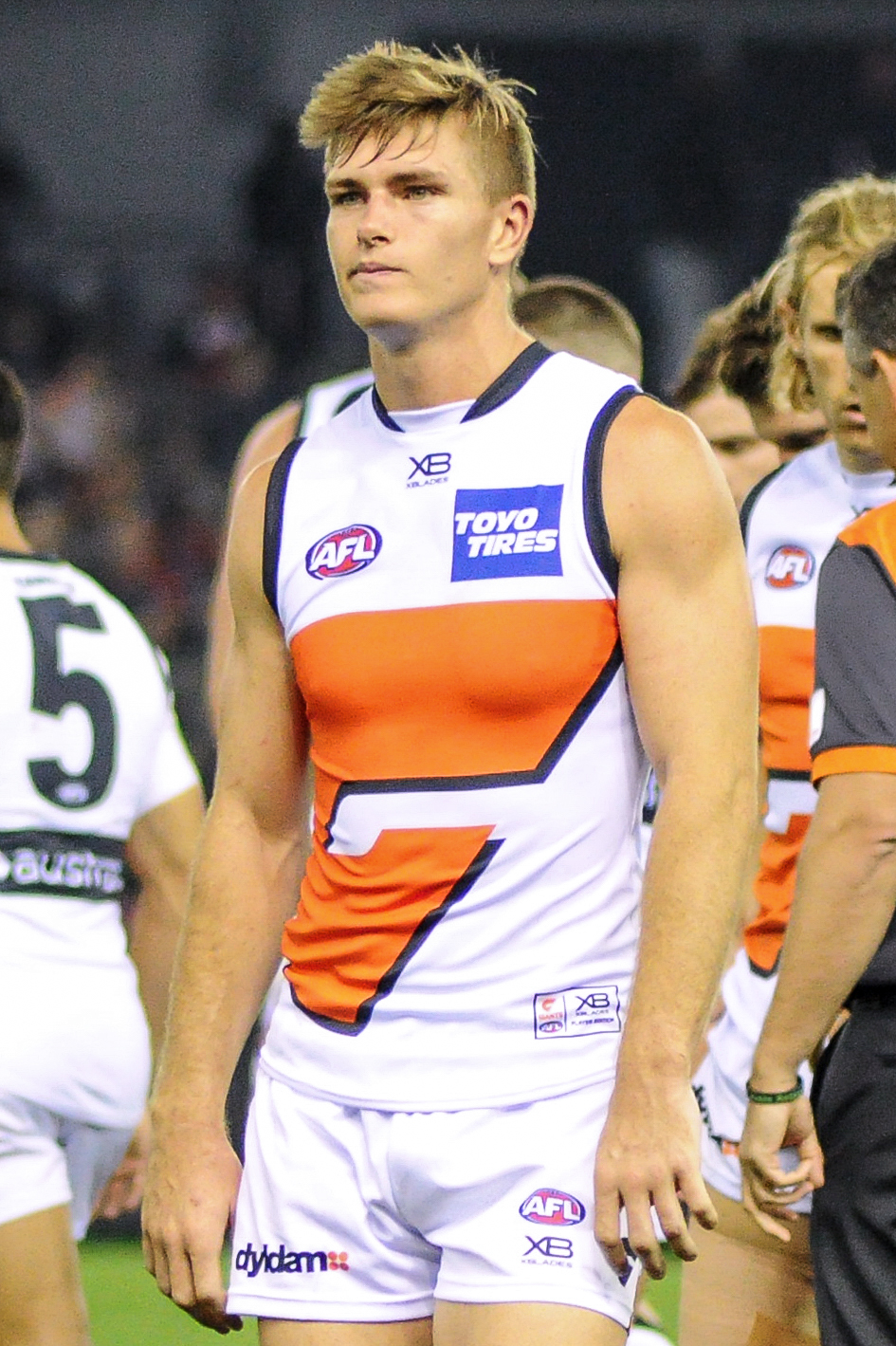 Adam Tomlinson during the AFL round five match between St Kilda and Greater Western Sydney on 21 April 2018 at Etihad Stadium in Melbourne, Victoria.